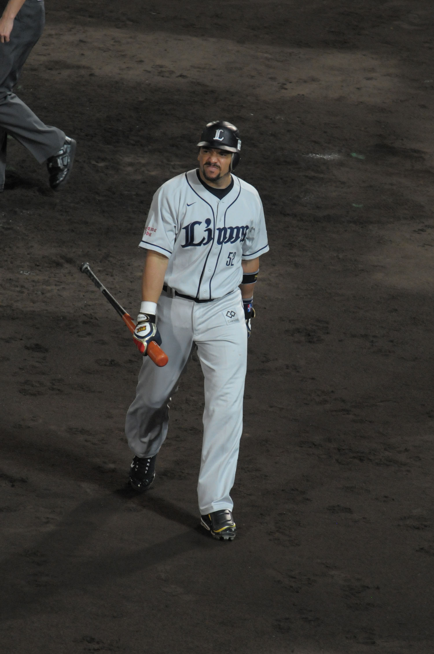 José Fernández, infielder of the Saitama Seibu Lions, at Akita Prefectural Baseball Stadium.